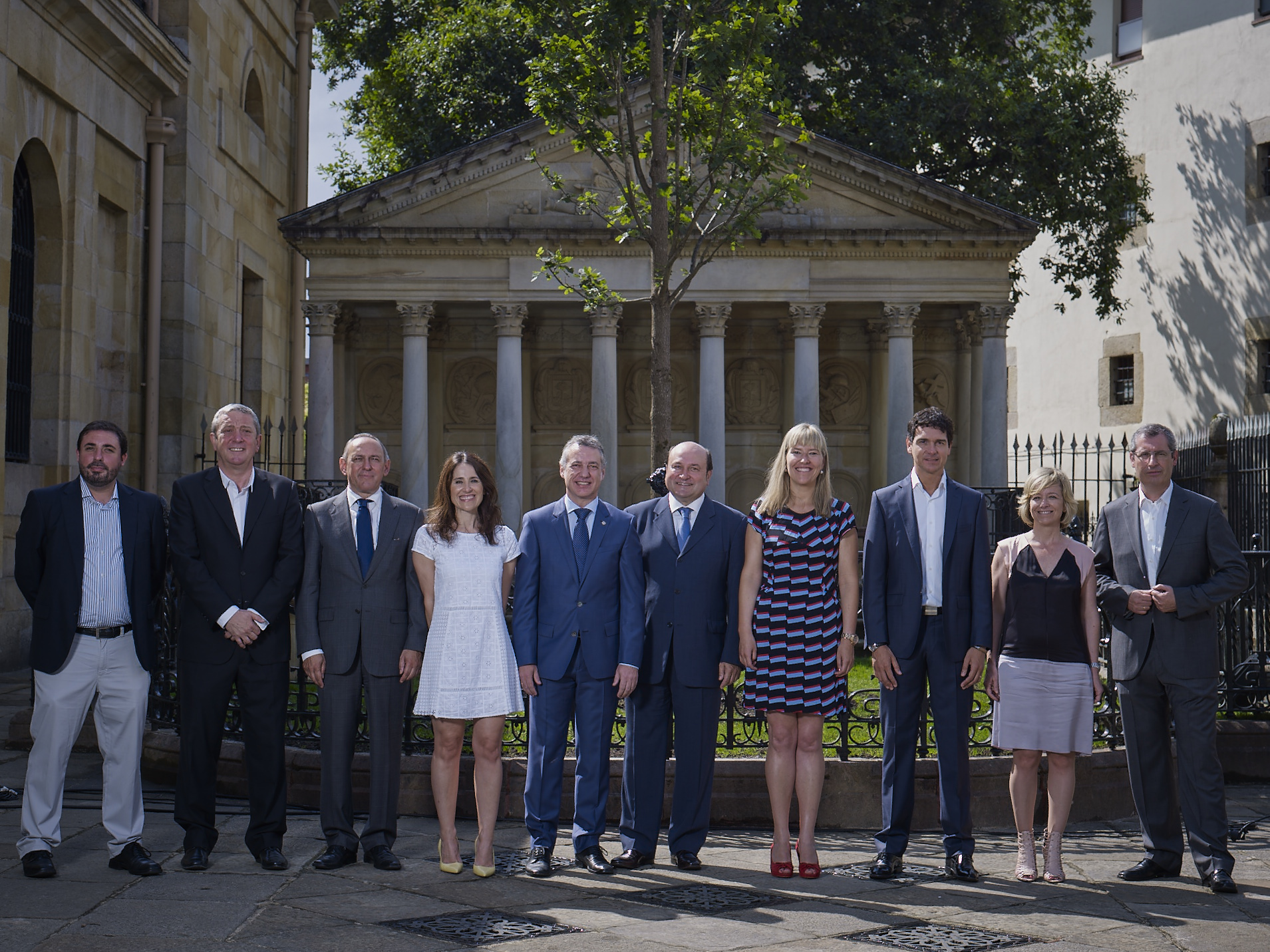 Representatives of the Basque National Party at the Assembly House of Gernika celebrating the 120 years of the party. From left to right: Unai Hualde (president of the party's Navarrese executive and Deputy Speaker of the Parliament of Navarre), Pedro Ignacio Elosegi (Speaker of the General Assembly of Araba), Ramiro Gonzalez (Deputy General of Araba), Bakartxo Tejeria (Speaker of the Basque Parliament), Iñigo Urkullu (Lehendakari, President of the Basque Government), Andoni Ortuzar (party leader), Ana Otadui (Speaker of the General Assembly of Biscay), Unai Rementeria (Deputy General of Biscay), Eider Mendoza (Speaker of the General Assembly of Gipuzkoa) and Markel Olano (Deputy General of Gipuzkoa)